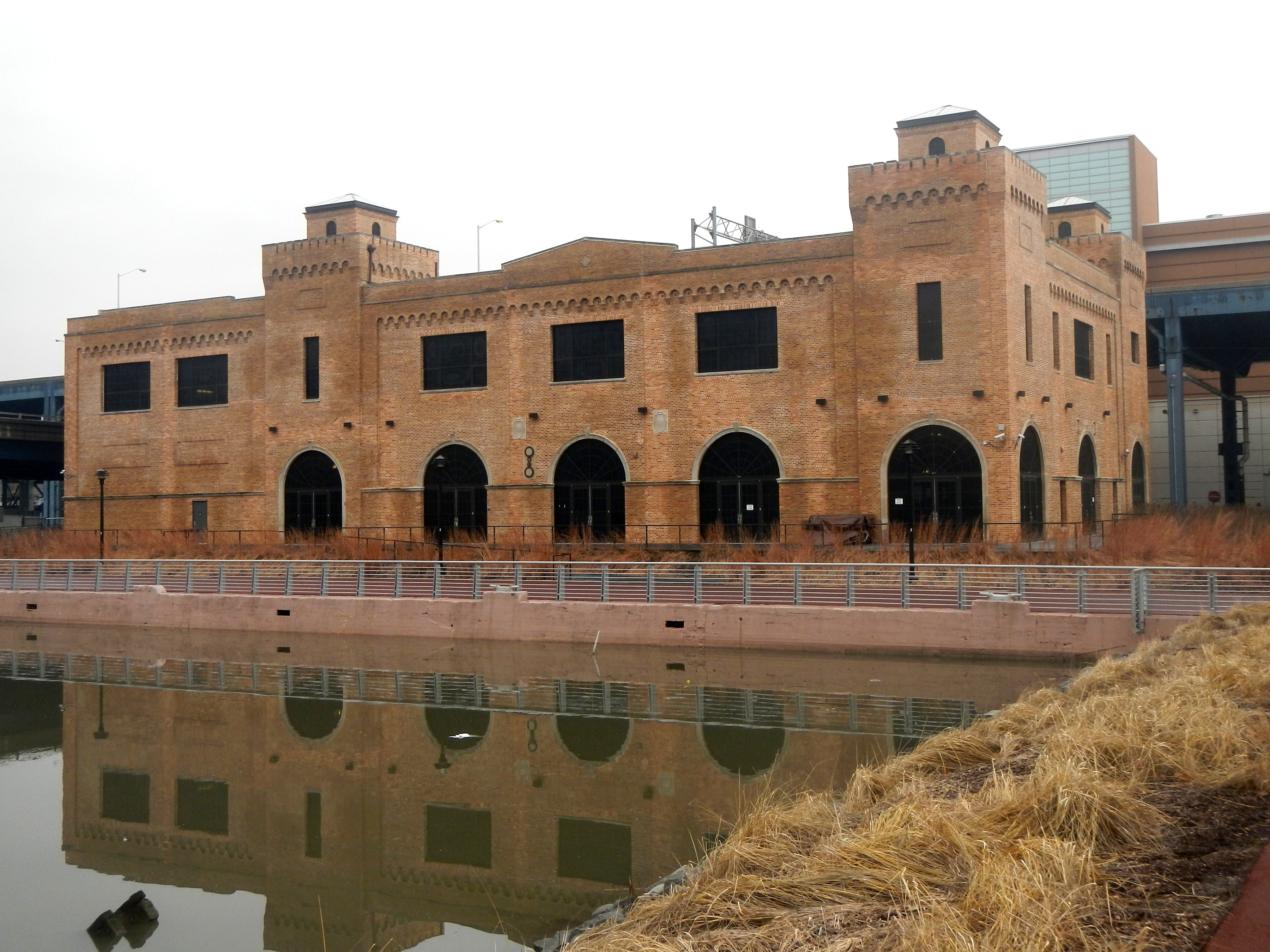 Looking east at former power house on a slightly sunny day.